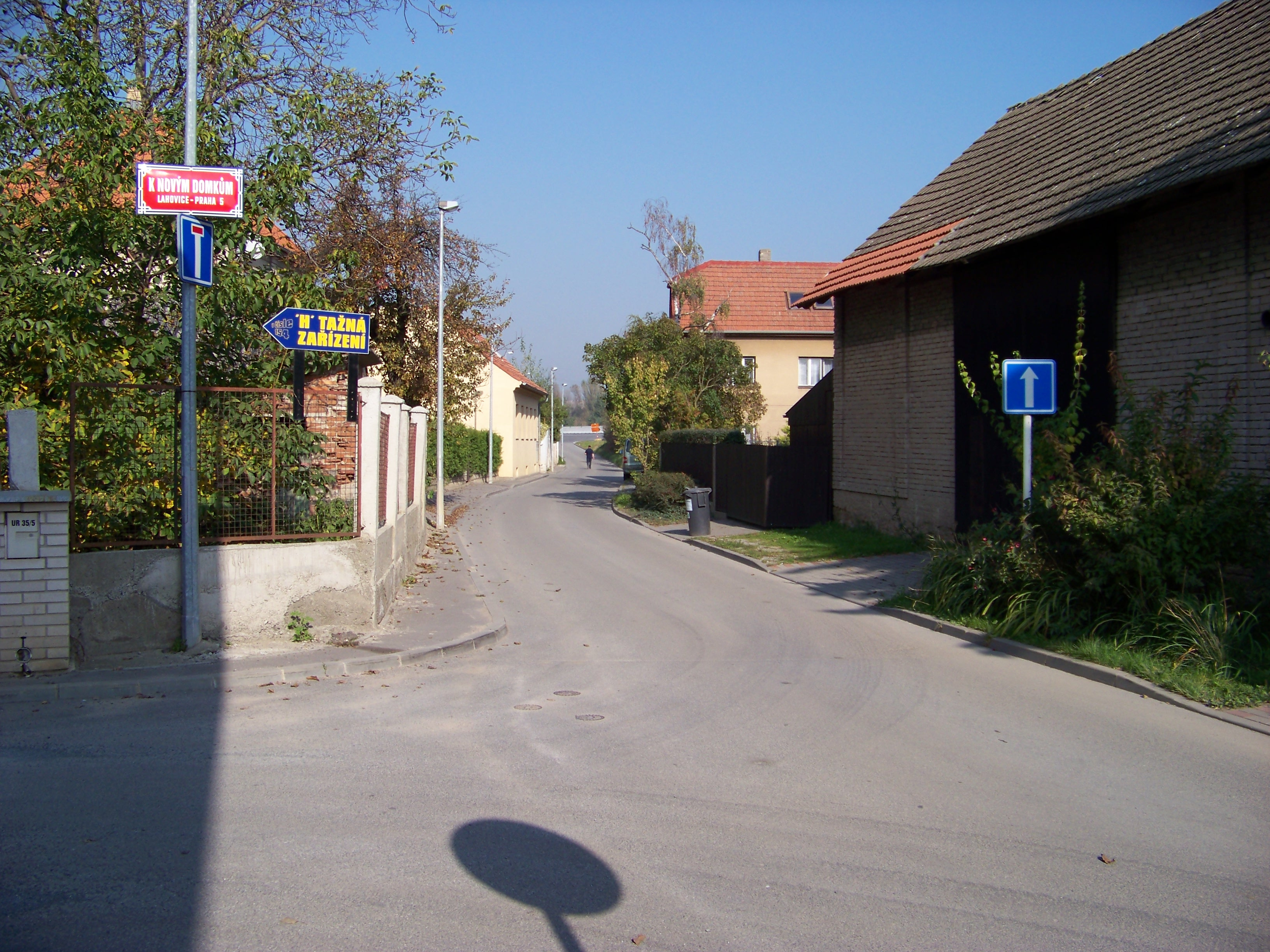 Prague-Lahovice, the Czech Republic, Spodní street. - Google Maps - Google Earth